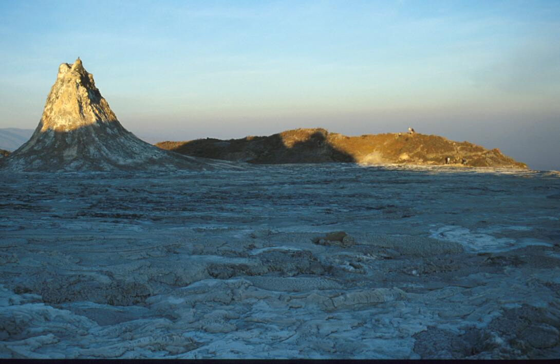 Hornito in the crater of Ol Doinyo Lengai, Tanzania